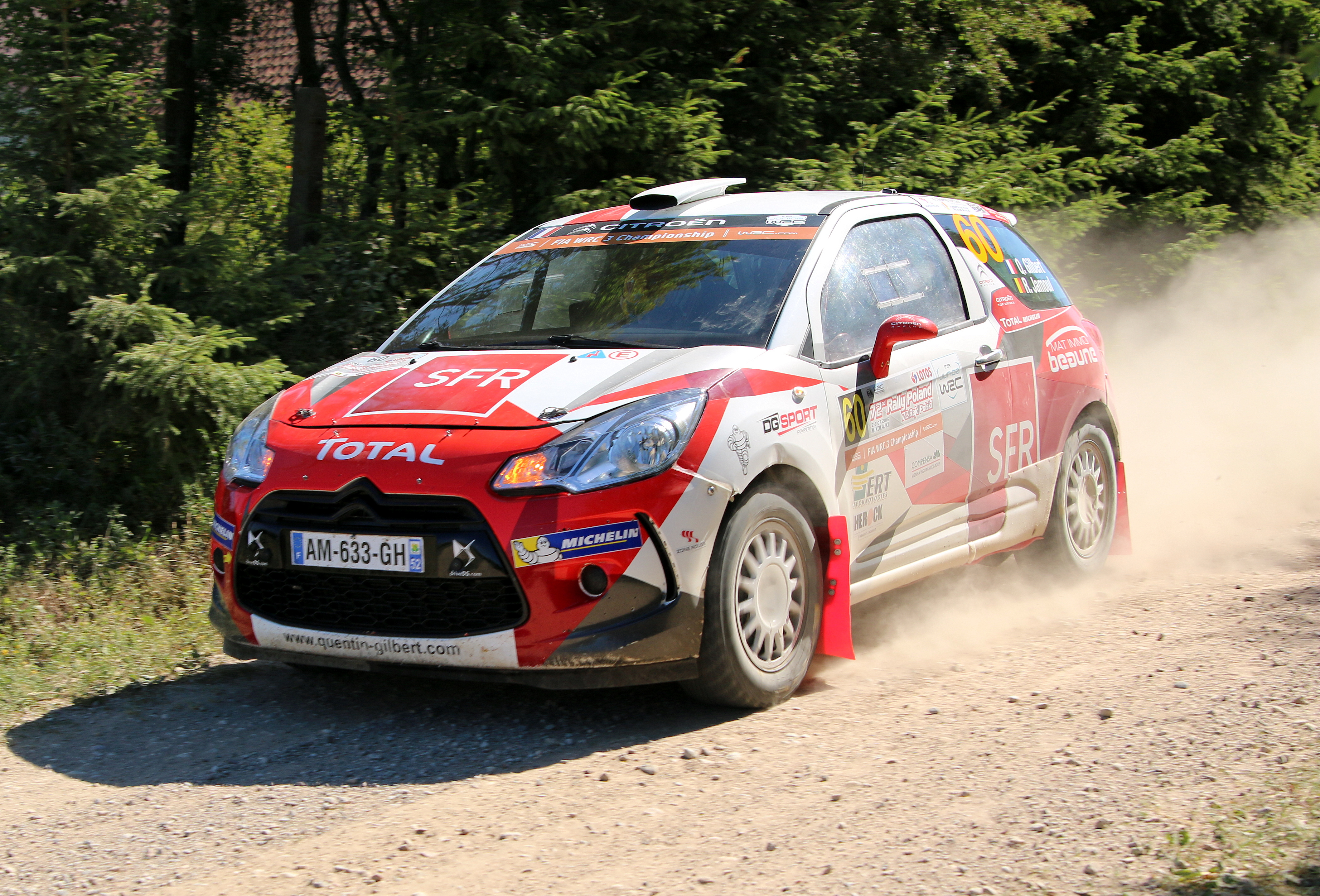 Quentin Gilberti, OS 10 Mazury, 72nd LOTOS Rally Poland